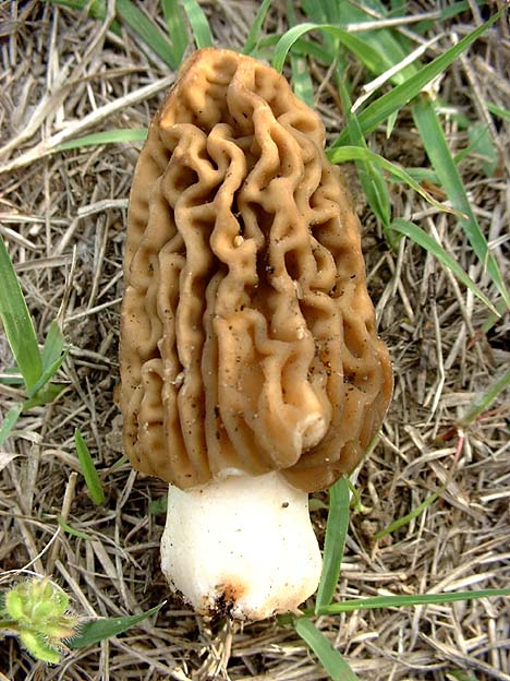 Verpa bohemica